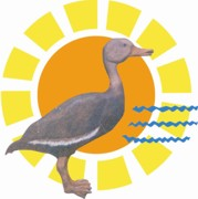 Coat of arms of Pijijiapan, Chiapas